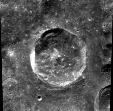 Rydberg lunar crater - Clementine image